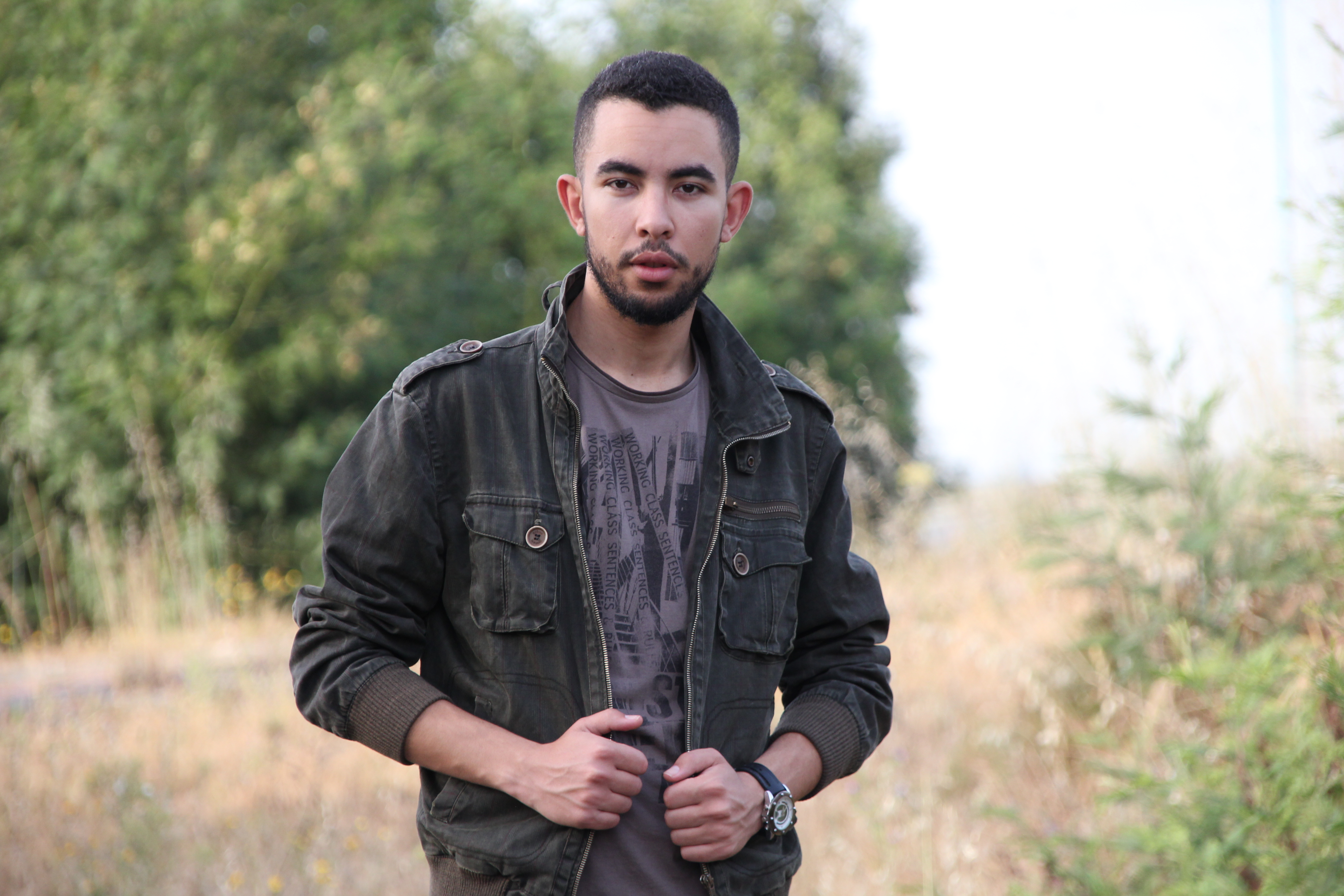 Photographs of Oussama Belhcen for his song "Kolshi Bin Yeddi"